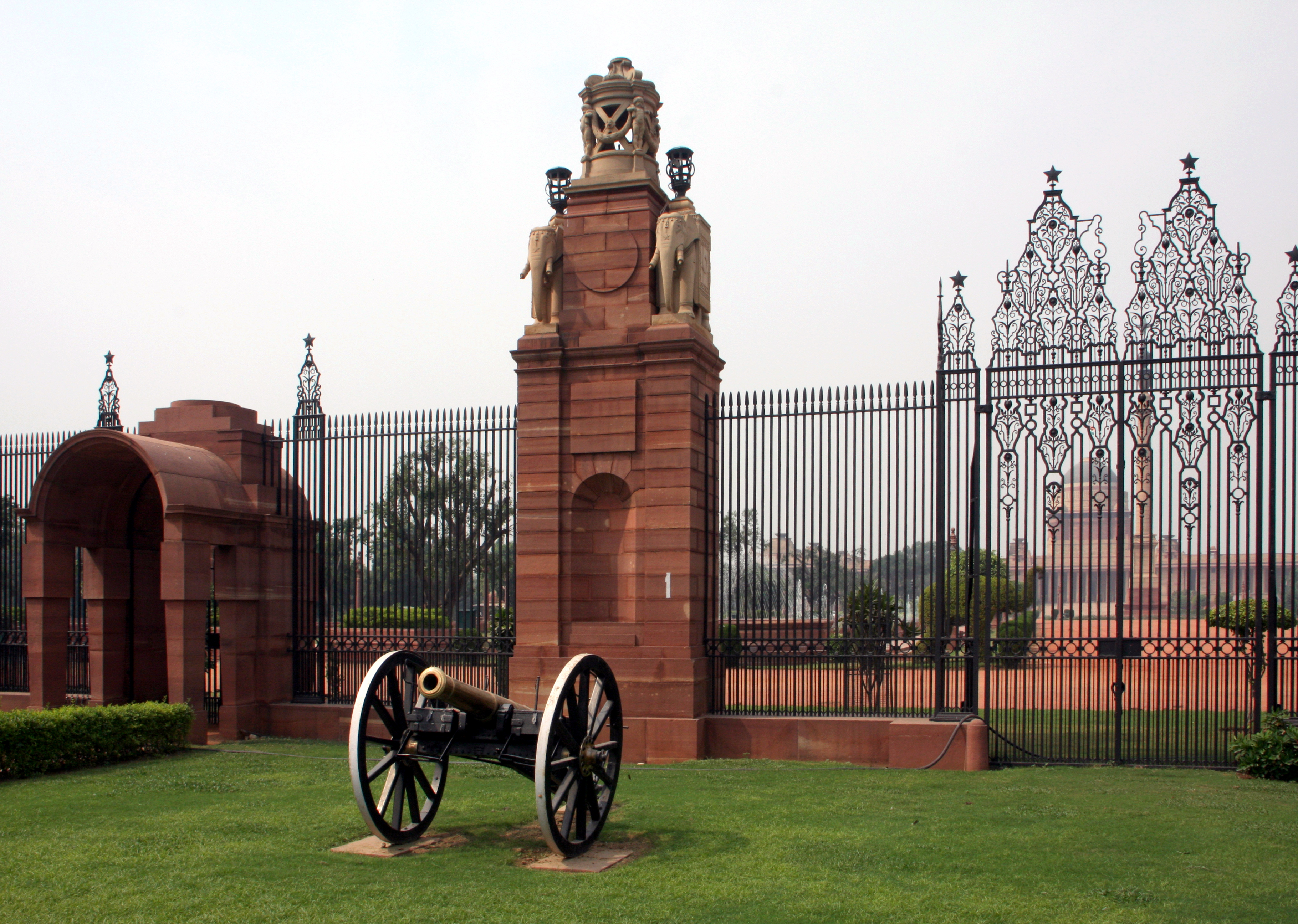 Cannon outside the entrance to Rashtrapati Bhavan (the President's House) inaugurated 1931, Delhi.